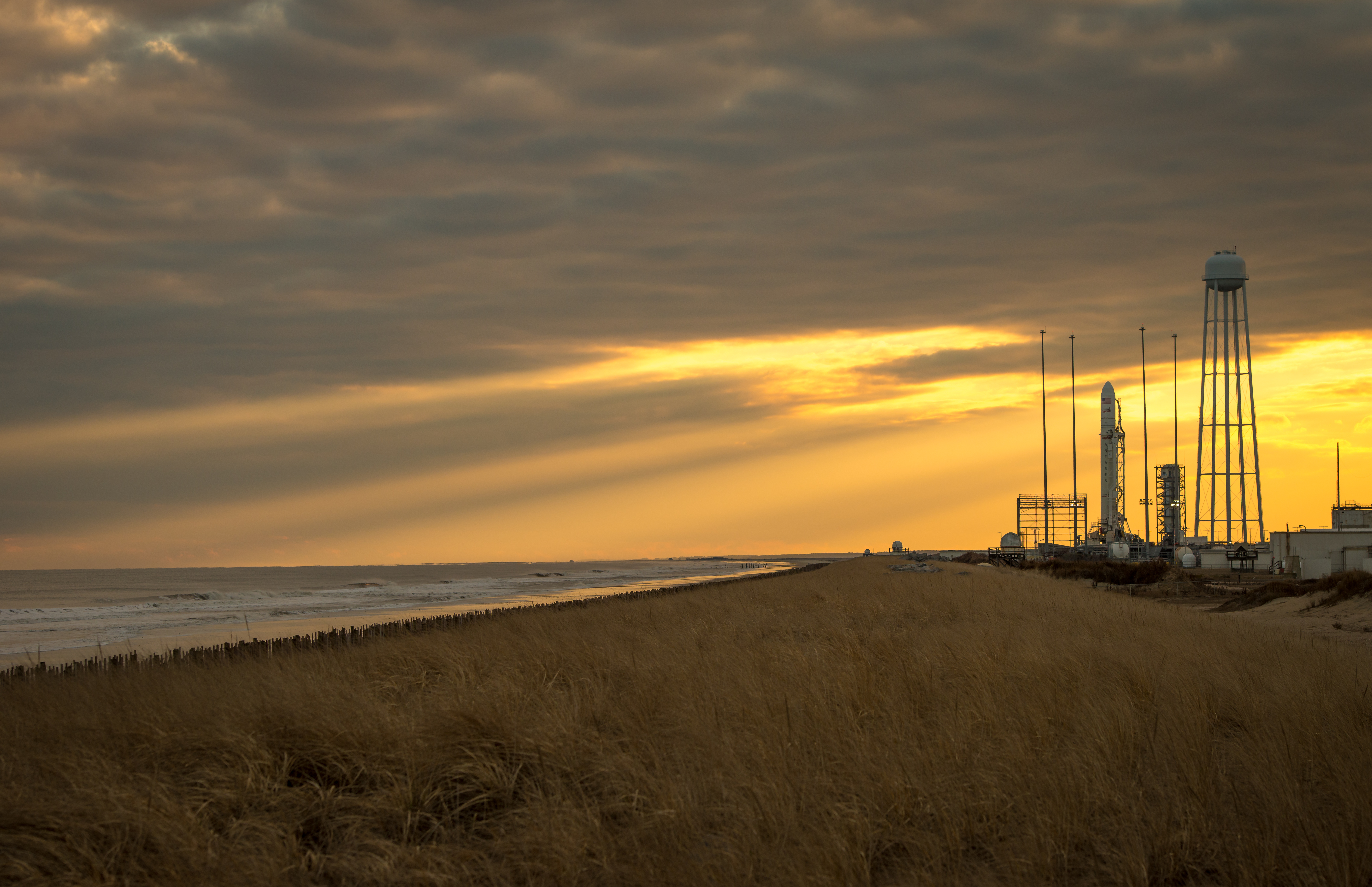 An Orbital Sciences Corporation Antares rocket is seen on launch Pad-0A at NASA's Wallops Flight Facility, Monday, January 6, 2014 in advance of a planned Wednesday, Jan. 8th, 1:32 p.m. EST launch, Wallops Island, VA. The Antares will launch a Cygnus spacecraft on a cargo resupply mission to the International Space Station. The Orbital-1 mission is Orbital Sciences' first contracted cargo delivery flight to the space station for NASA. Among the cargo aboard Cygnus set to launch to the space station are science experiments, crew provisions, spare parts and other hardware.